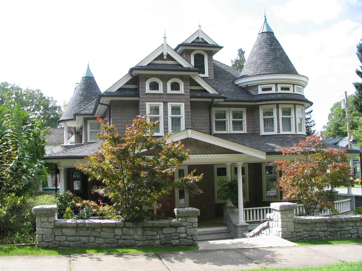 This image was created by me, Flying Penguin of Pacific Spirit Photography of Burnaby, British Columbia, Canada